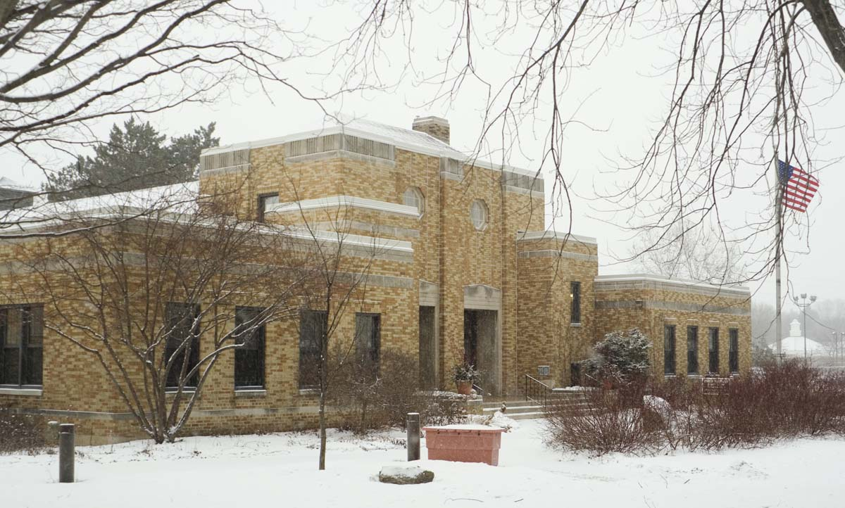 The Mequon Town Hall and Fire Station Complex, Registered Historic Place in Mequon, Wisconsin.